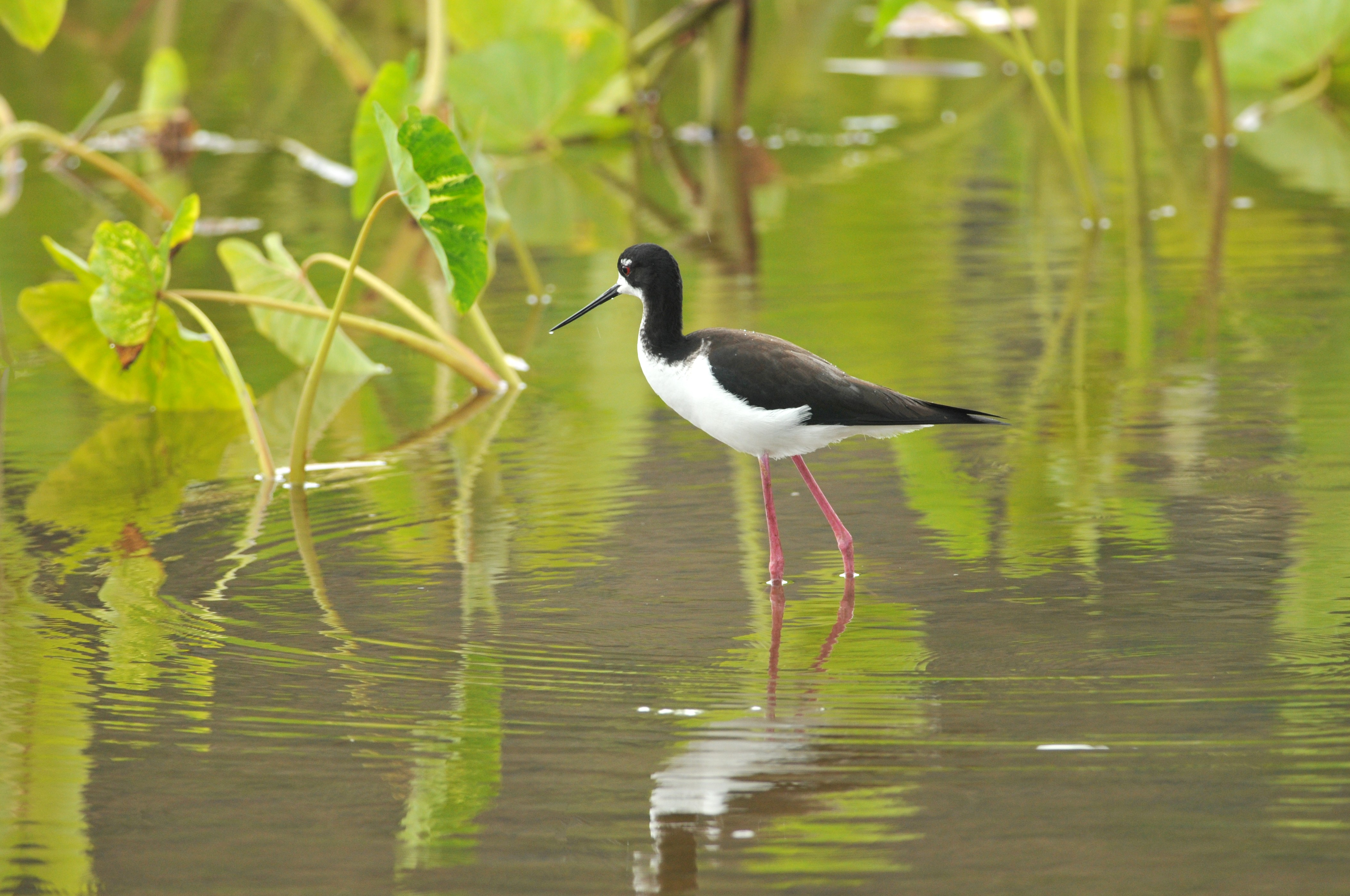 A Black-necked Stilt (also known at Hawaiian Stilt or āeʻo) in Kauai, Hawaii, USA.